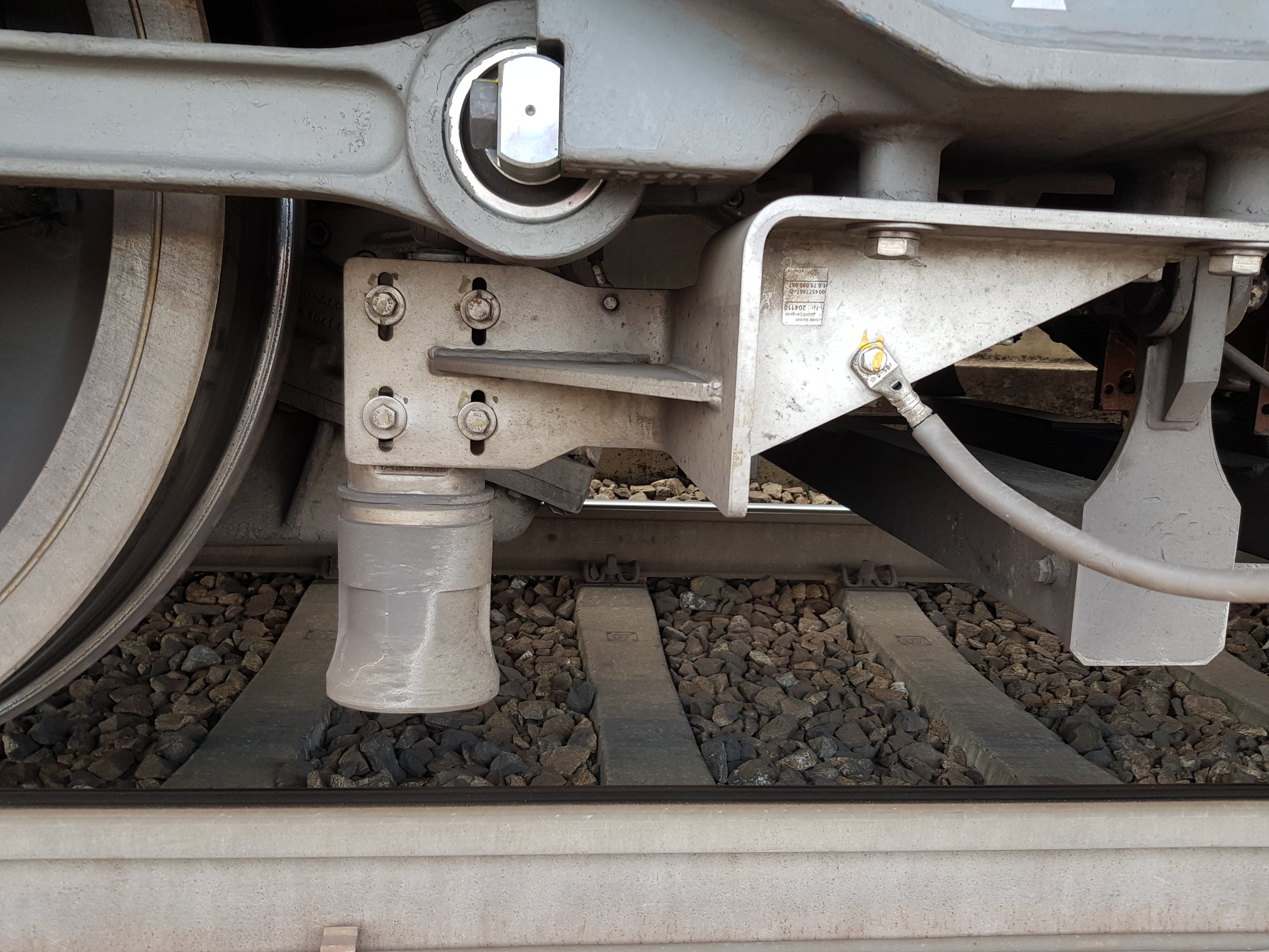 CORRail®1000 sensor (for ETCS odometry) at a DB Class 401 train